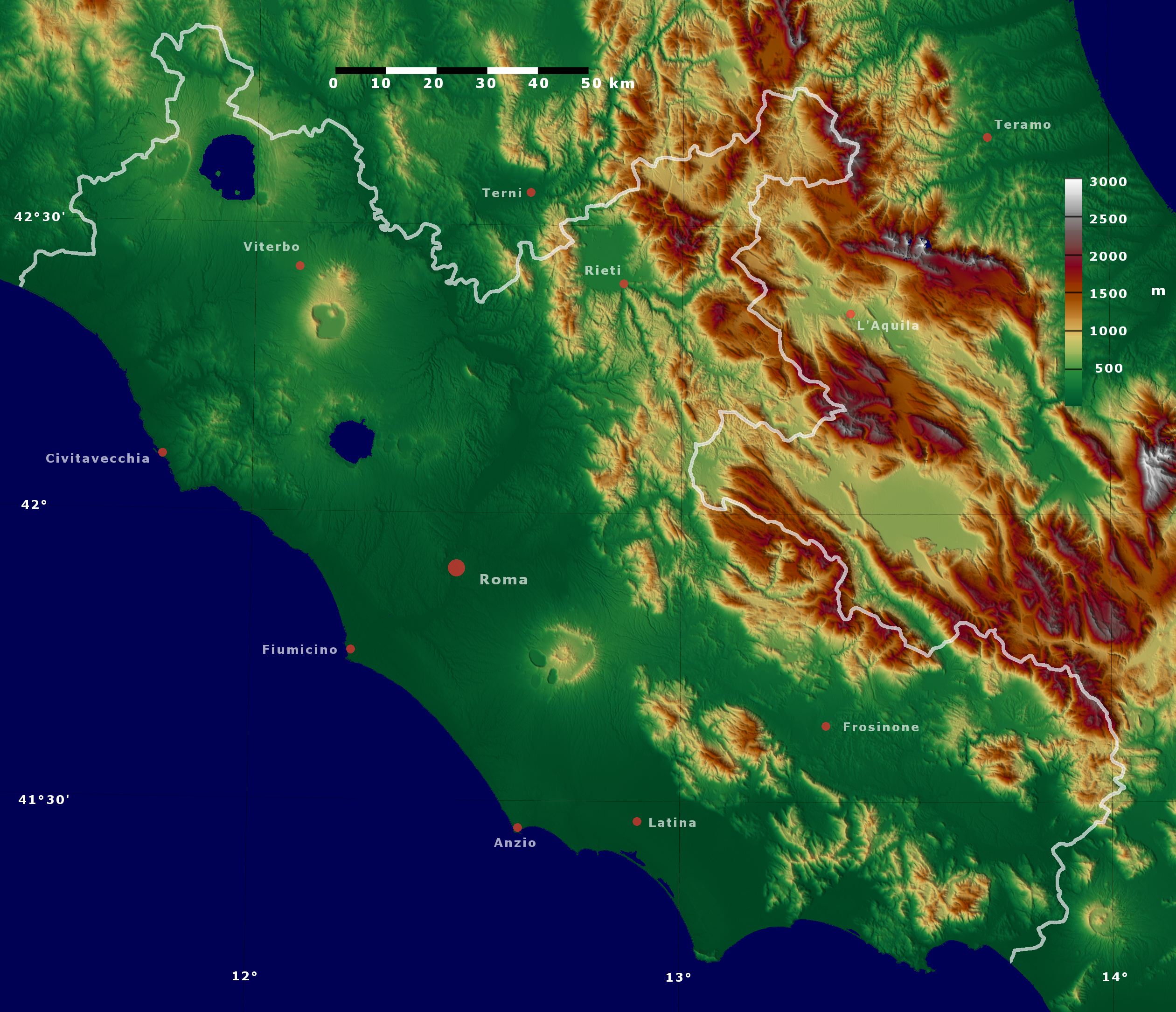 Map created with 3DEM from SRTM ( Administrative boundaries from OpenStreetMap.